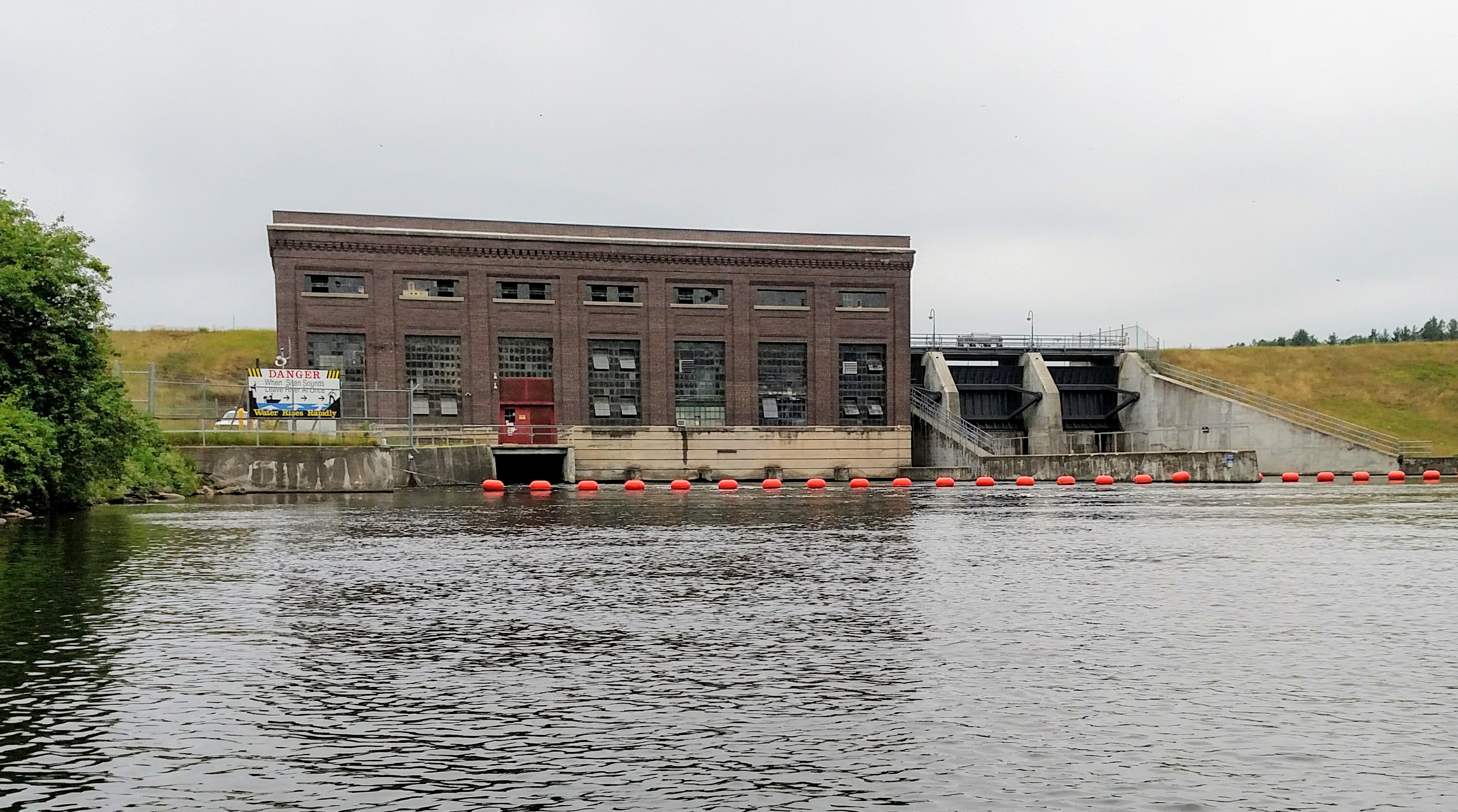 The down river side of Loud Dam, July 2017